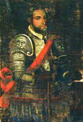 Pedro de Castro "of the War", and Isabel Ponce de León, in a 17th-century painting in the Palace of the Counts of Ficalho, in Serpa, Portugal.